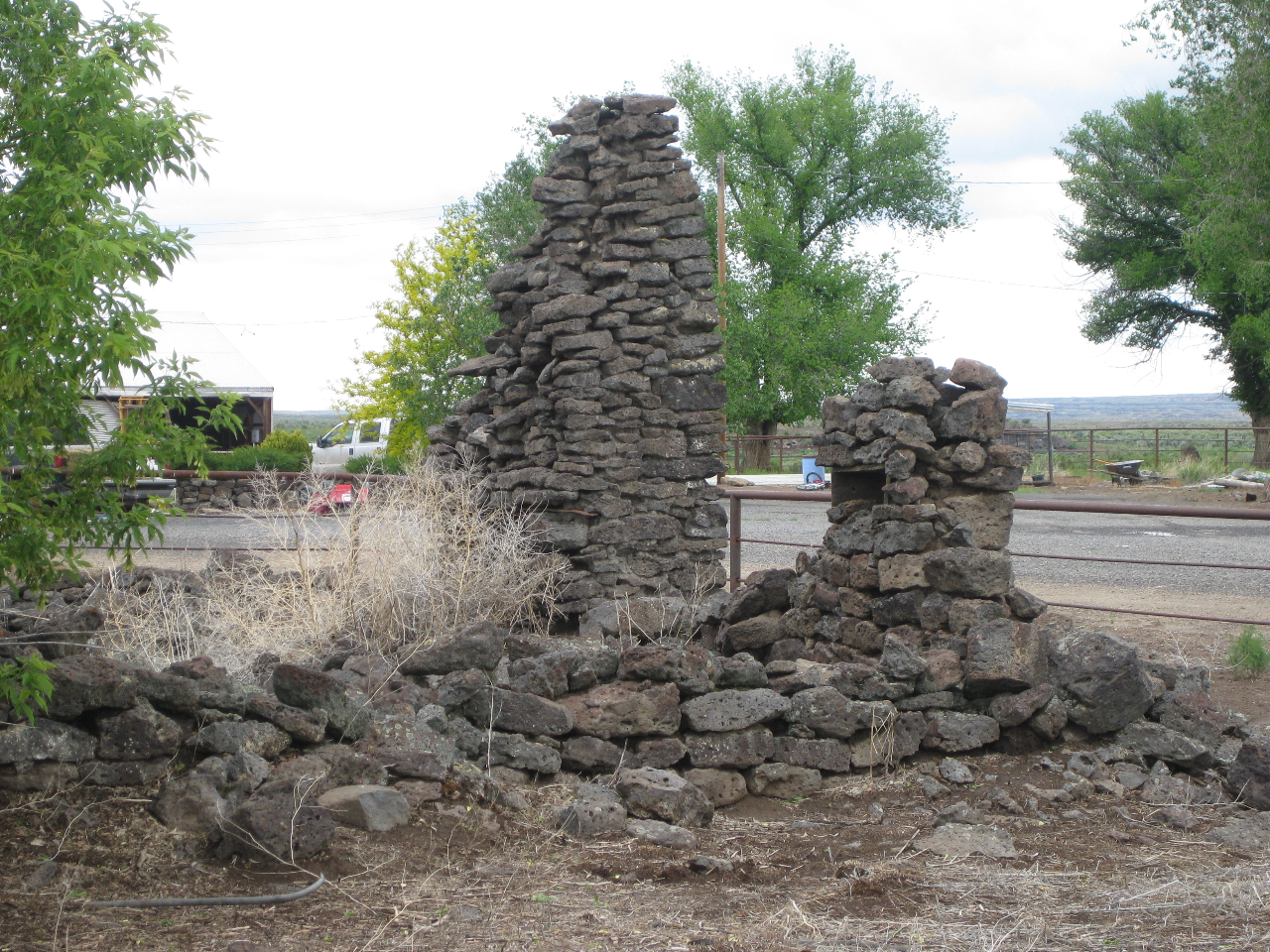 Chimney and fireplace